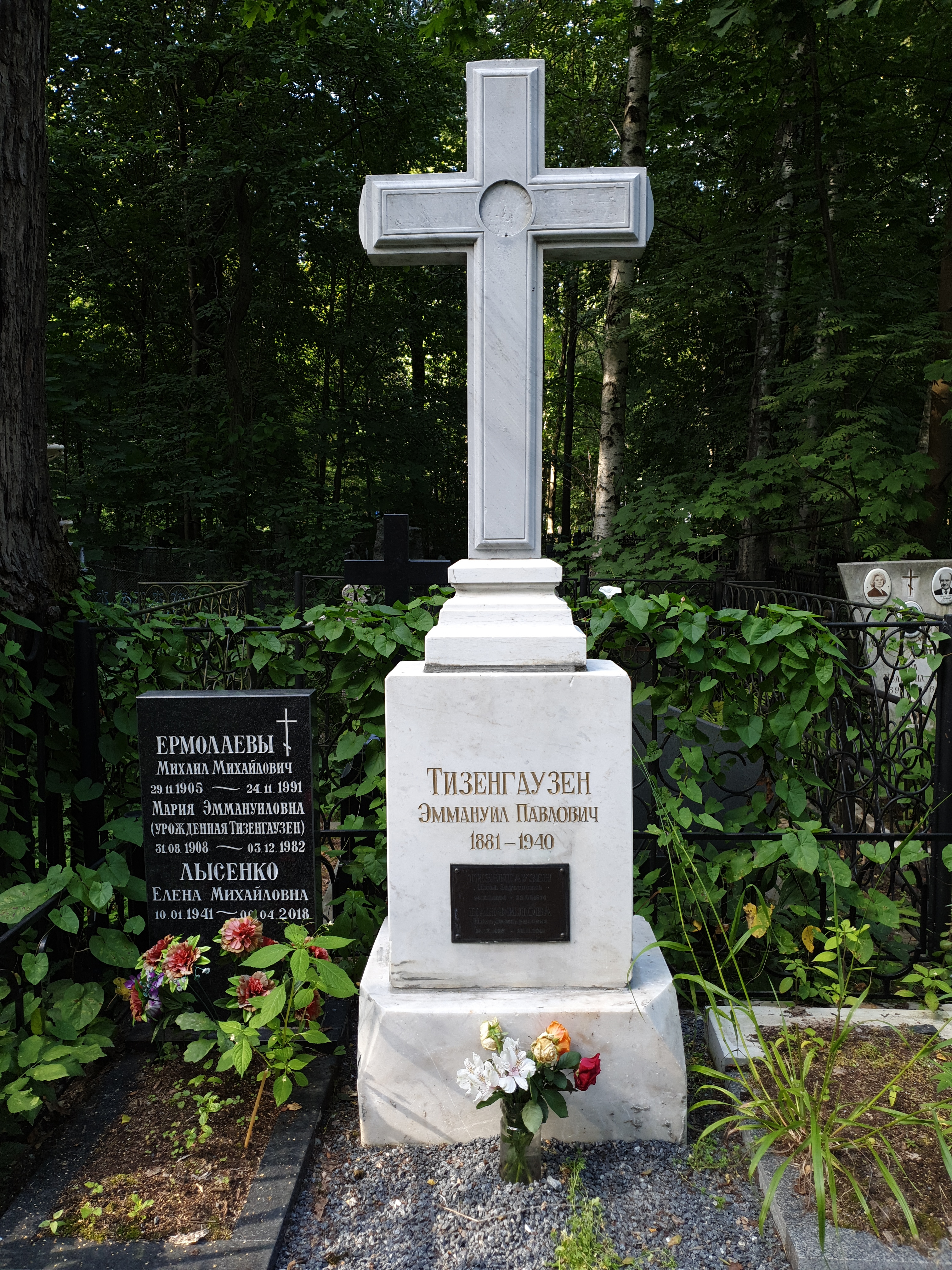 Tombstone of Emanuel Tiesenhausen